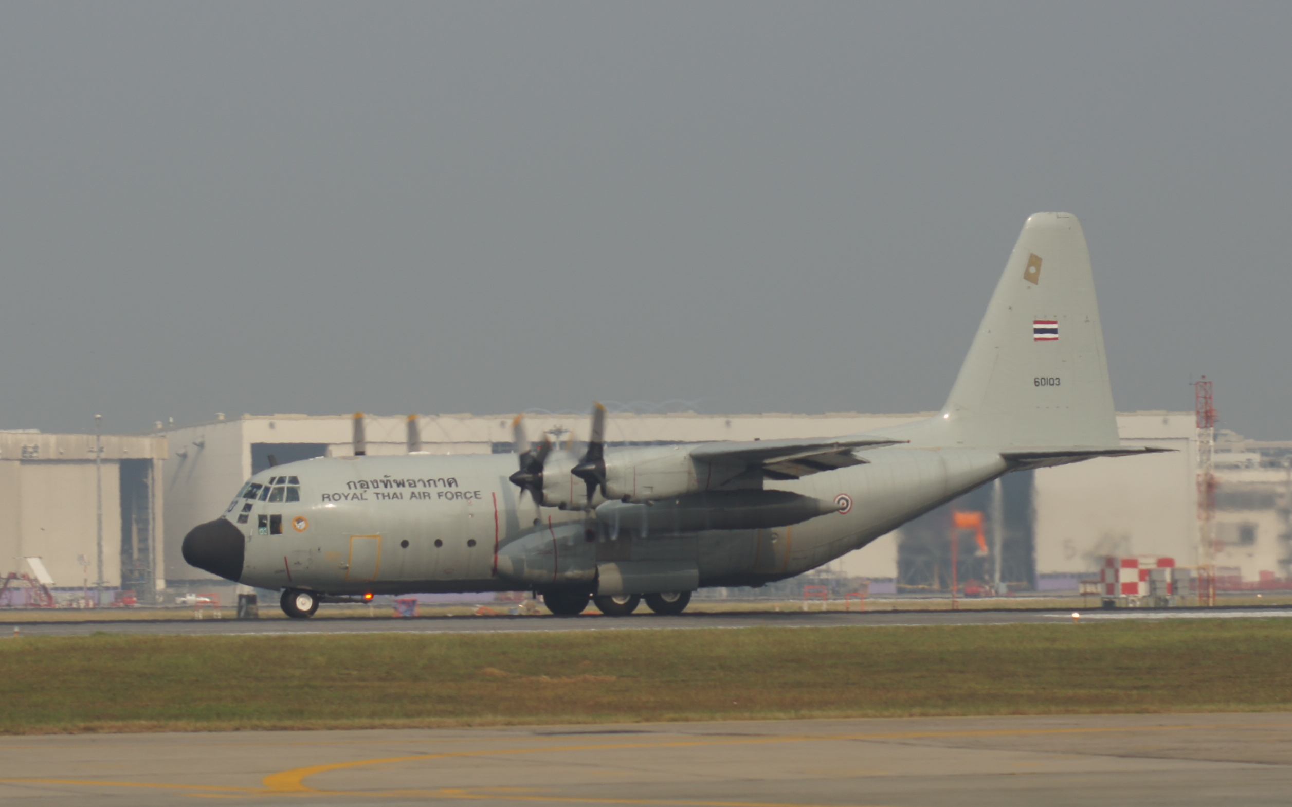 A C-130 of the Royal Thai Air Force in 2013